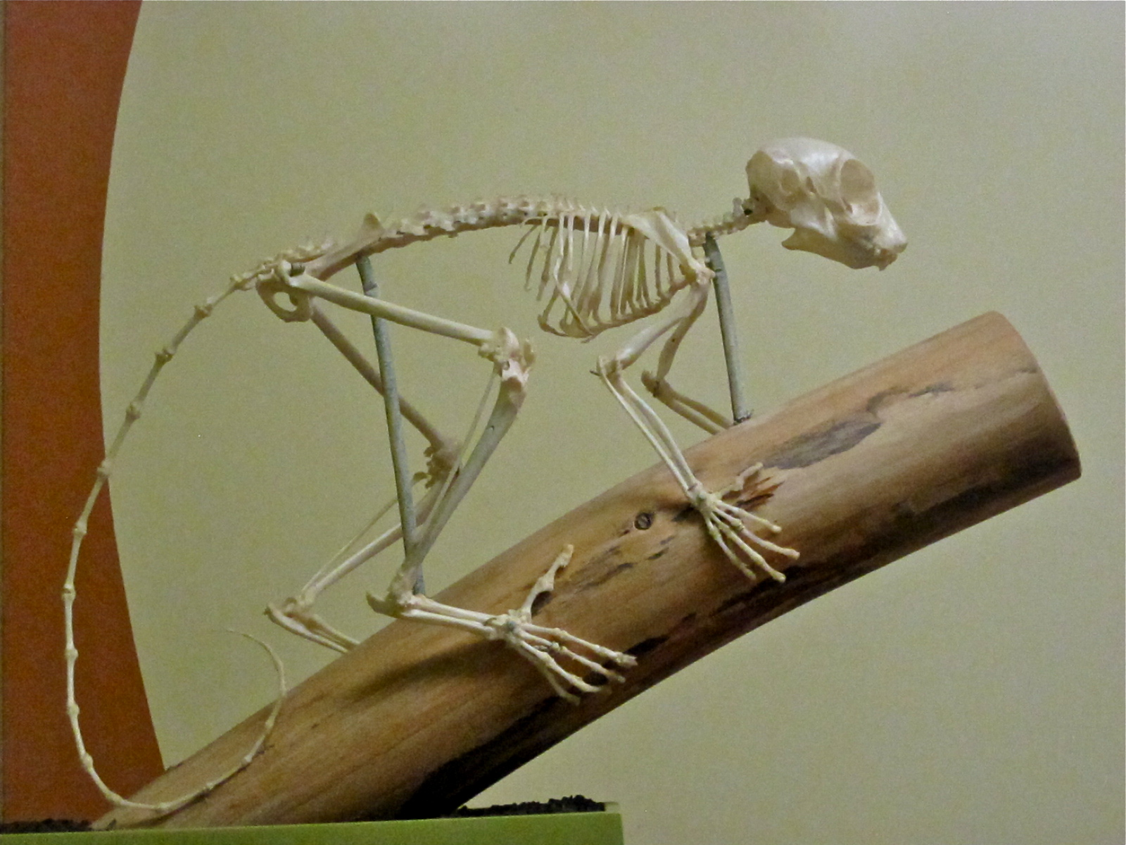 Galago senegalensis skeleton